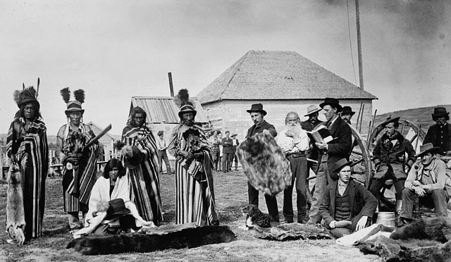 Title / Titre :Mistahi maskwa (Big Bear, lived ca. 1825-1888), (standing forth from left) a plains Cree chief trading at Fort Pitt, Northwest Territories, 1884 / Mistahi maskwa (Big Bear, vers 1825-1888), (4e à partir de la gauche) un chef cri des Plaines, en train de faire de la traiteà Fort Pitt dans les Territoires du Nord-Ouest, 1884. Creator(s) / Créateur(s) : Buell, O.B. Date(s) : 1884 Reference No. / Numéro de référence : 3192491 Location / Lieu : Fort Pitt, Northwest Territories / Fort Pitt, Territoires du Nord-Ouest. Now Fort Pitt Provincial Park in Saskatchewan Credit / Mention de source : O.B. Buell / Library and Archives Canada / PA-118768 / O.B. Buell / Bibliothèque et Archives Canada / PA-118768